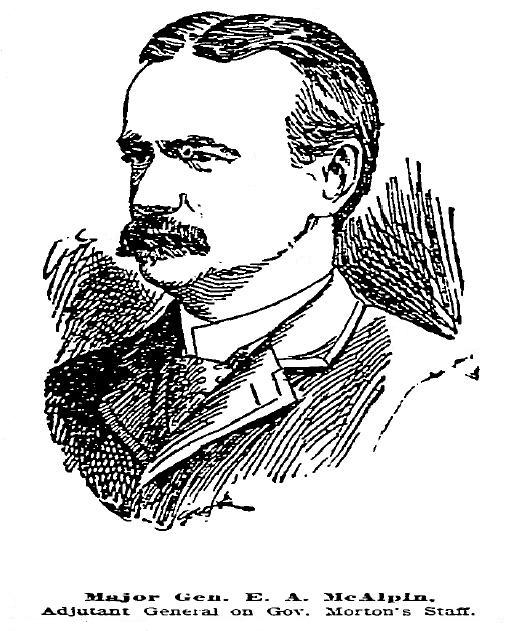 Line drawing portrait of General Edwin A. McAlpin, Adjutant General of the New York under Governor Morton, commander of the 71st Regiment of the New York Militia, later the New York Guard circa 1895. McAlpin was involved in the tobacco industry and was a prominent activist in the Republican Party in New York.